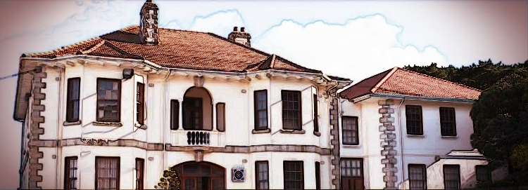 Bible Institute of South Africa pano created by Kathy Clare Noland. BISA is an theology training college in Cape Town, South Africa